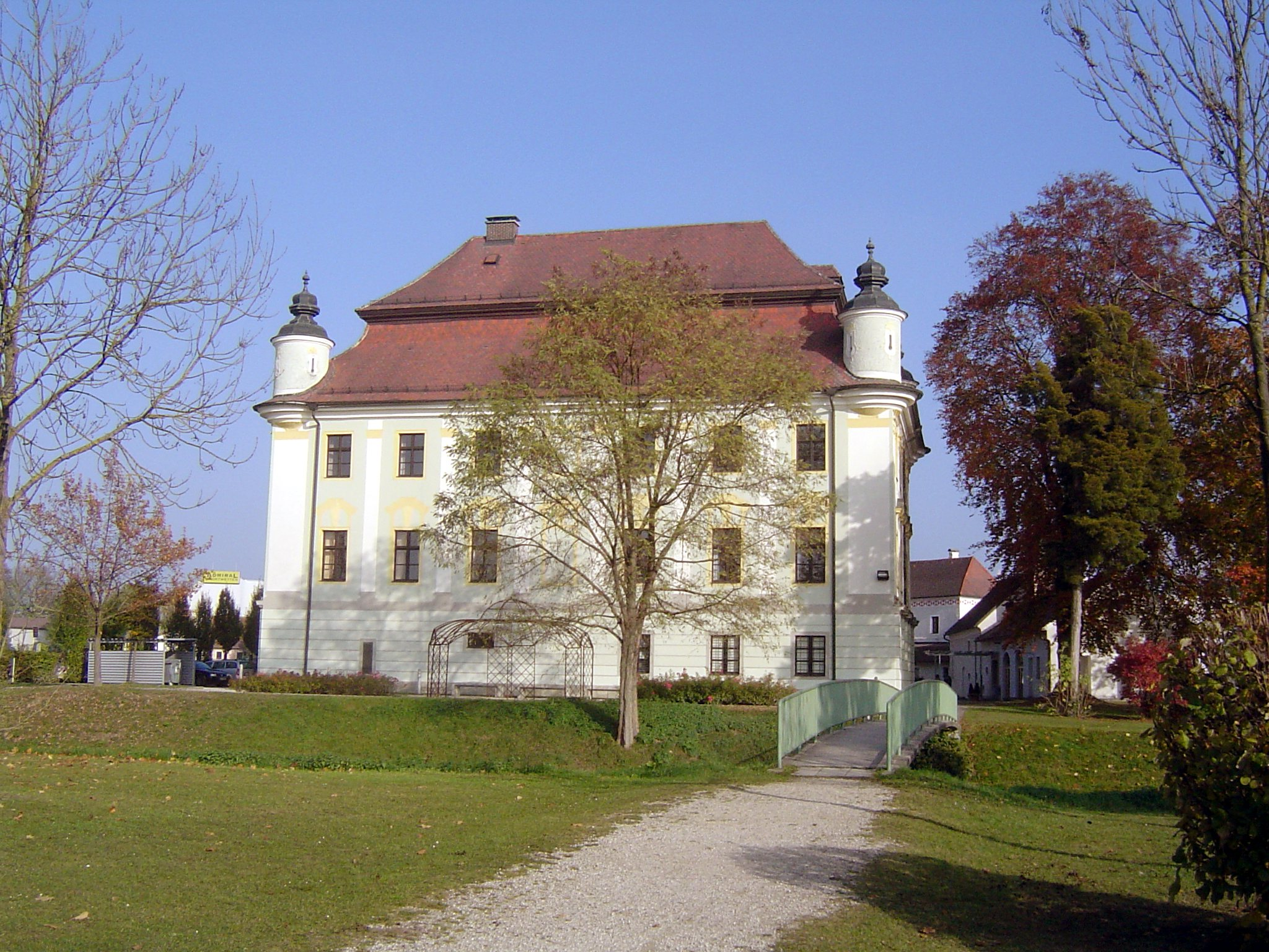 Castle Traun, Upper Austria, from west